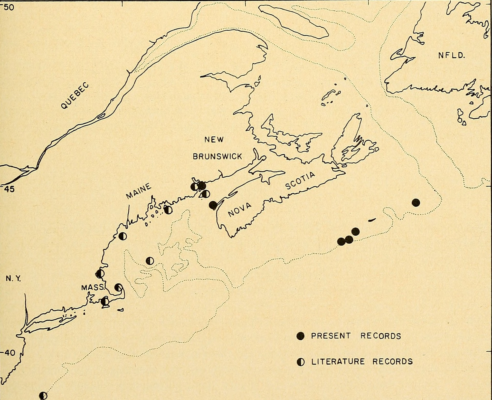 Title: The Canadian field-naturalist Year: 1967 (1960s) Authors: Ottawa Field-Naturalists' Club Subjects: Publisher: Ottawa, Ottawa Field-Naturalists' Club Text Appearing Before Image: 1967 Pearlsides in the Northwestern Atlantic 185 Table 2.—Collections of Maurolicus muellen in the northwestern Atlantic Location Lat. Long. Date Source No. 15/6/60 pollock 2 24/7/60 pollock 1 7/6/61 pollock 4 21/7/61 pollock 2 7/7/59 1 6/7/59 pollock 1 8/7/59 haddock 1 26/7/59 cod 1 Standard L. mm. Off Brier Is., N.S. Off Campobello, N.S. Off Brier Is., N.S. Off Brier Is., N.S. Scotian Shelf Scotian Shelf Scotian Shelf Scotian Shelf 44°13' 44°57' 44°13' 44° 17'30" 43°25' 43°22' 43°33' 44°26' 66°37'30" 66°55' 66°37'30" 67°00' 60°57' 61°14' 60°39' 58°07' 28.5, 33 23, 26, 27, 28.5 26 27.5 31 Text Appearing After Image: lOOFMS. 65 I # PRESENT RECORDS C LITERATURE RECORDS 60 Figure 1. The distribution of pearlsides in the northwestern Atlantic. The following references are given in order to bring together all the original records of collections of this rare fish.